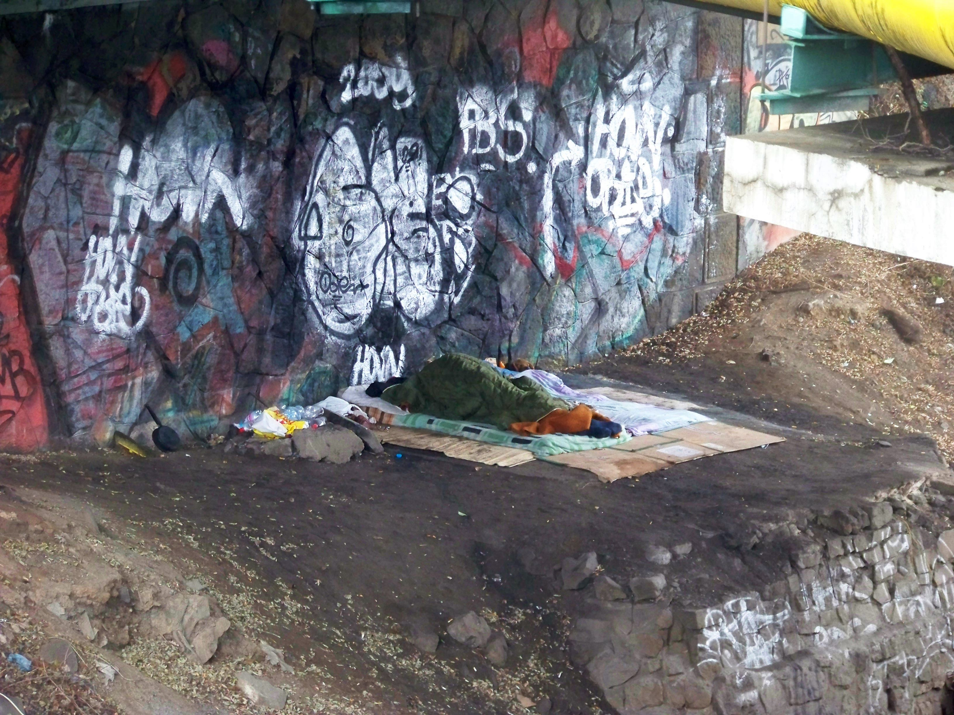 Prague, Smíchov, the Czech Republic. A bridge of Křížová Street over railway line 122.